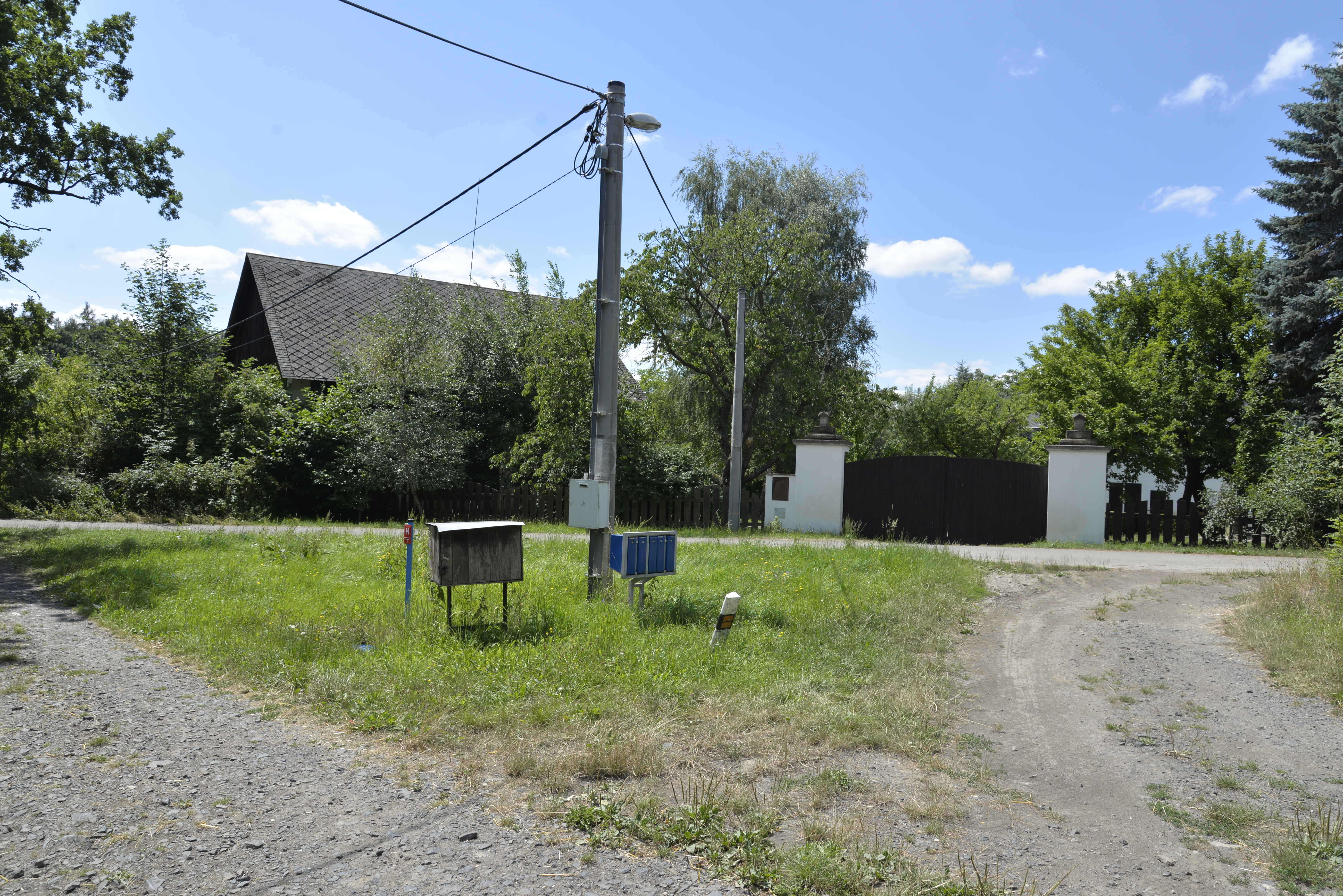 Settlement Jirsko 2. díl, part of the village Svijanský Újezd, village green